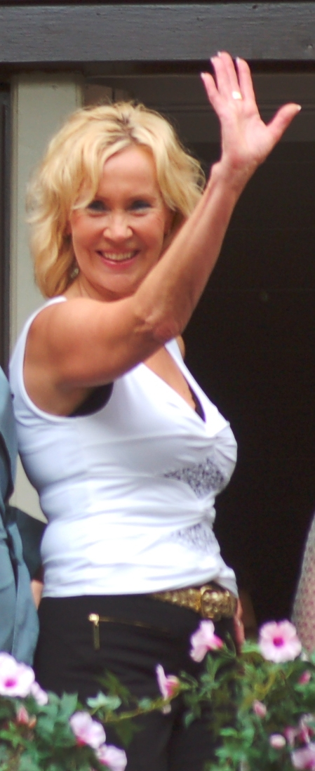 Agnetha Fältskog